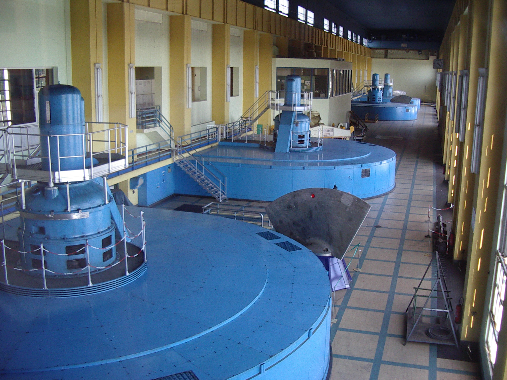 Machine room, hydroelectric powerplant near Fessenheim, Haut-Rhin, Alsace, France